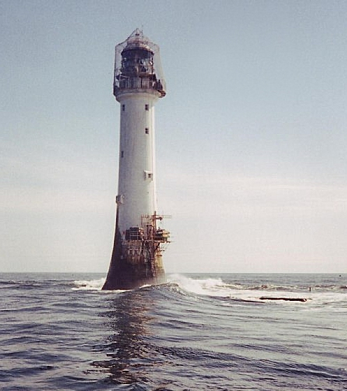 Bell Rock Lighthouse. Situated 11 miles out from Arbroath the lighthouse was built by Robert Stevenson in 1811, upon the infamous Inchcape reef. At high water the reef is hidden about 12 foot below the water level, at low water it is 4 foot above the sea.